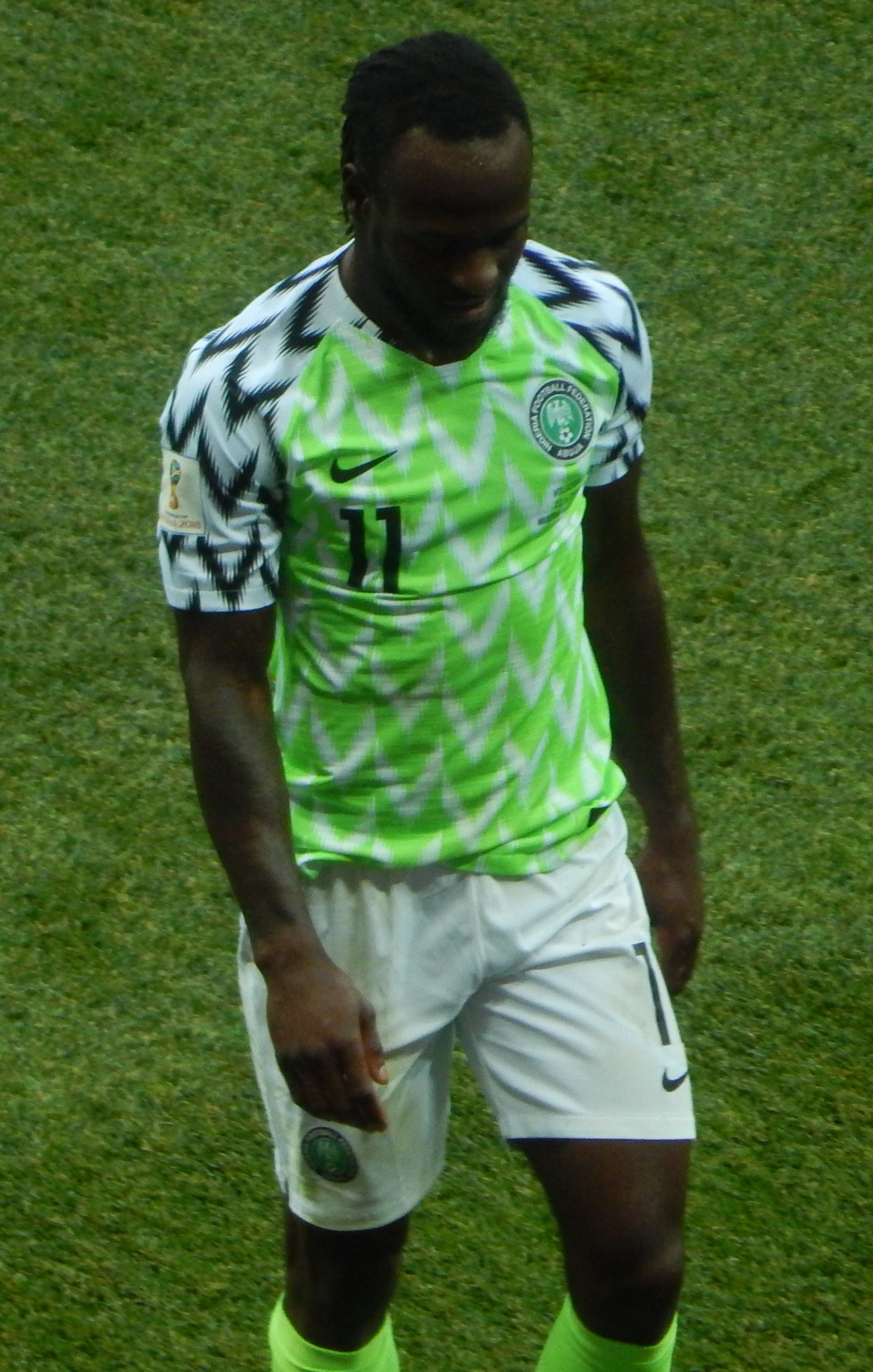 FIFA World Cup 2018, Group D, Nigeria vs. Iceland